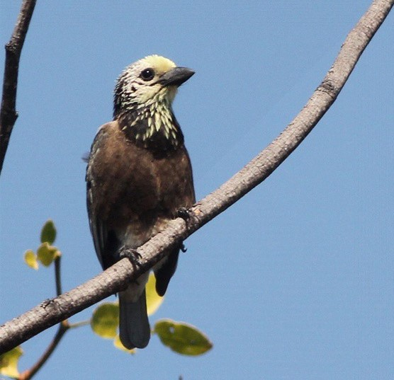 Anchieta's barbet at Kuito, Angola